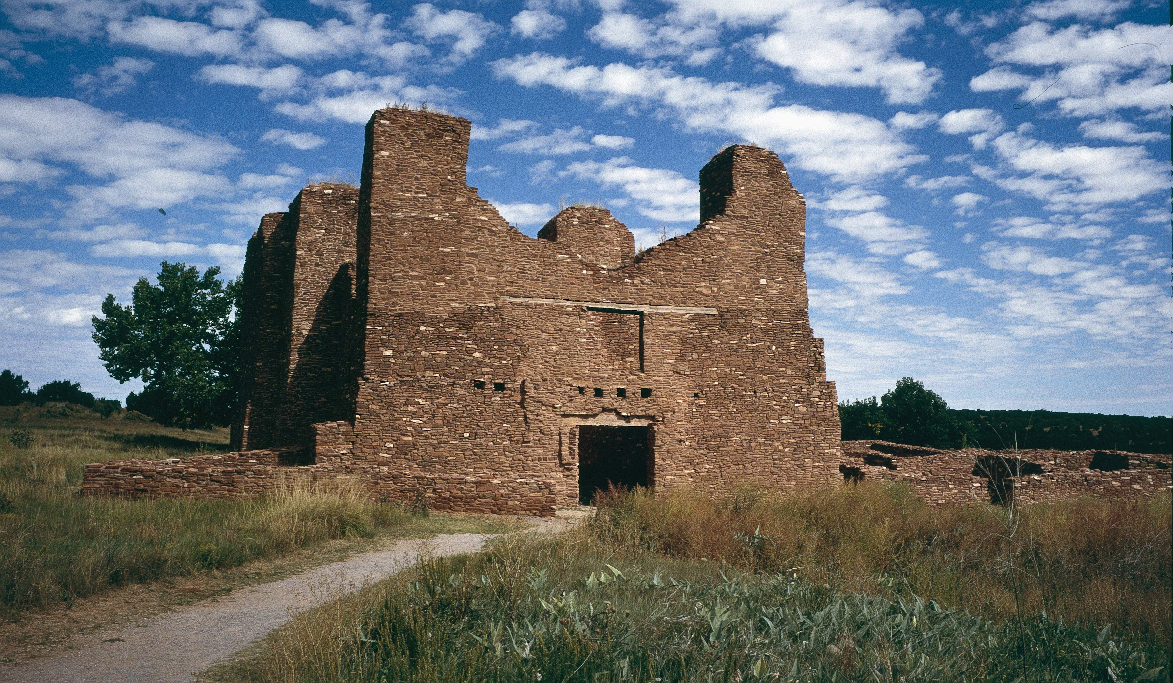 Pecos pueblo, New Mexico: grinding stones